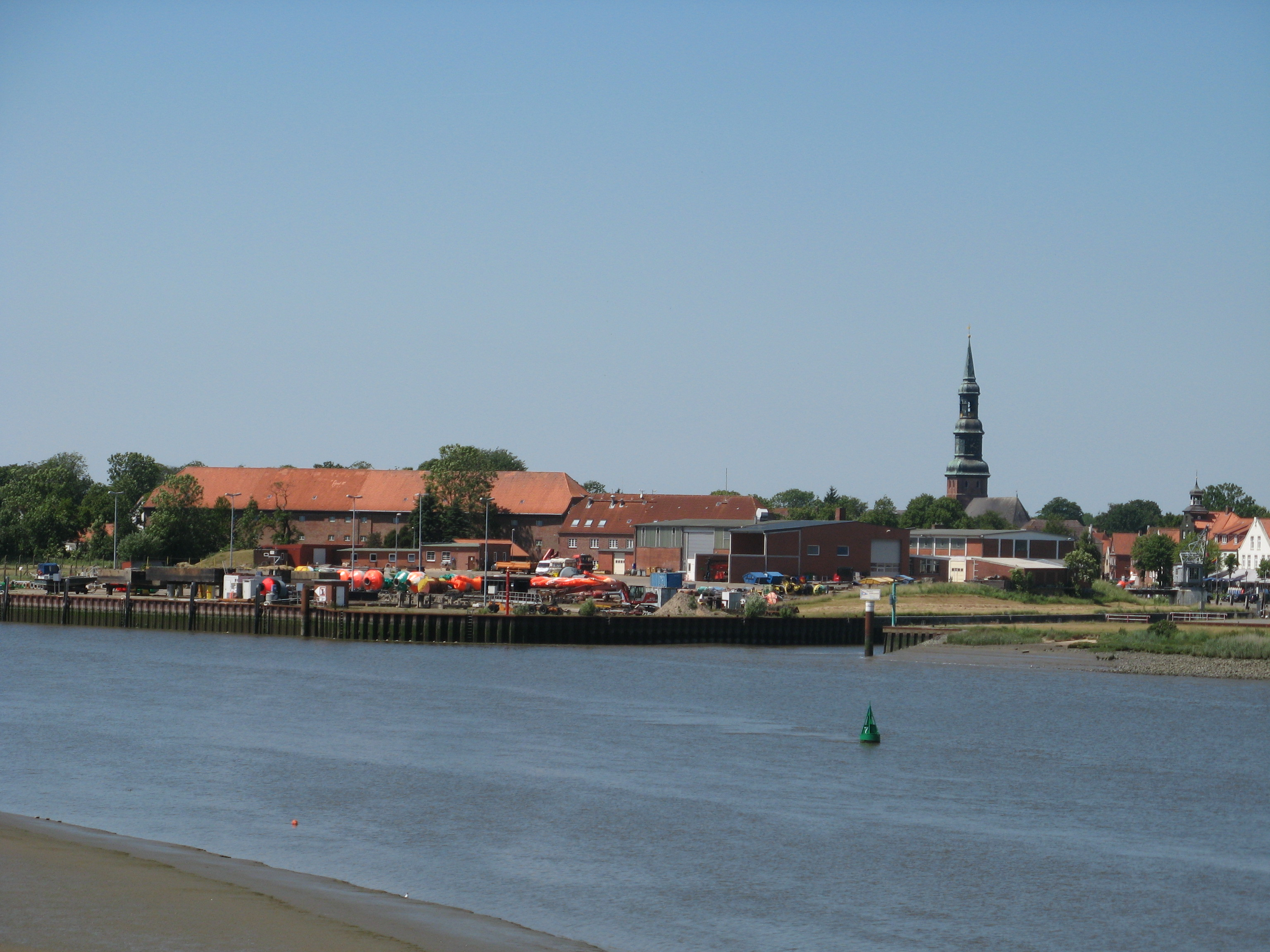 Tönning as seen from the bridge over the eider river